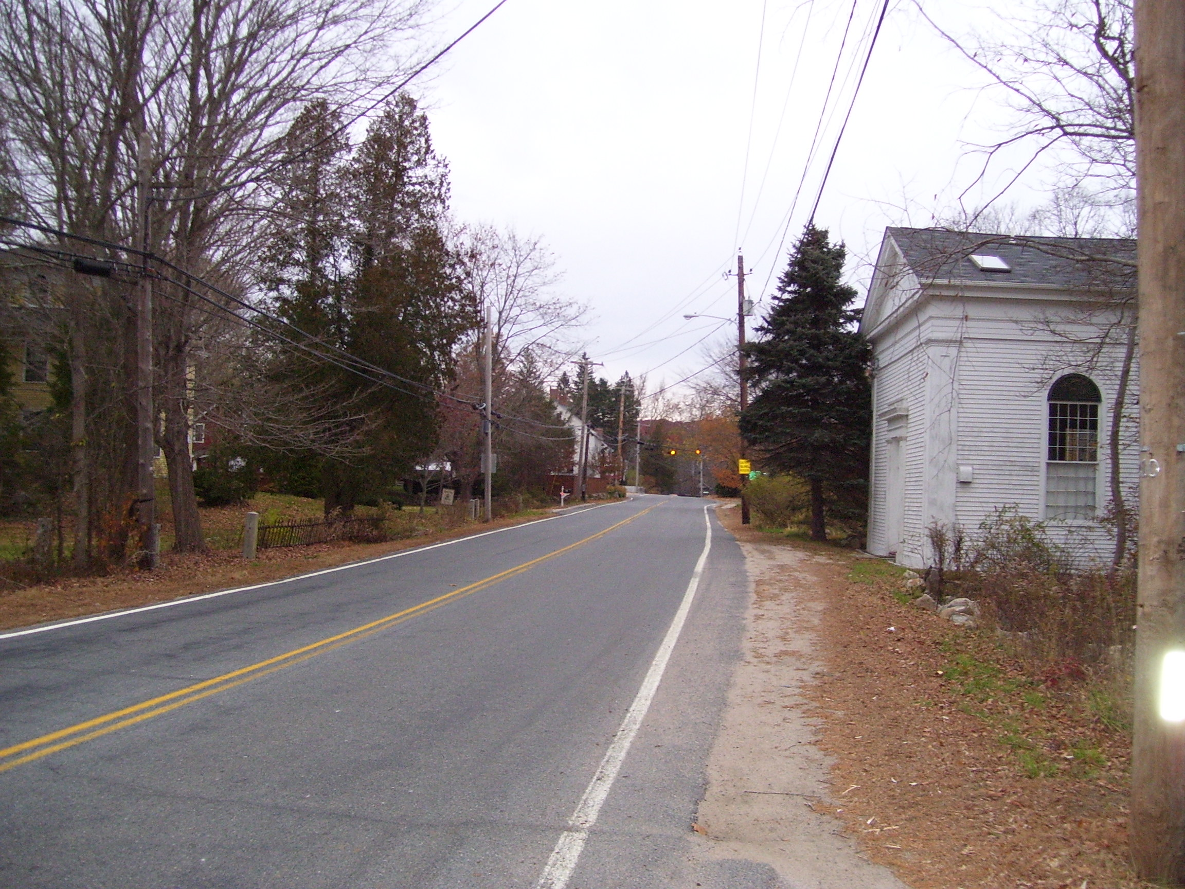 This is my 2008 photo of Hopkinton City Historic District in Rhode Island.